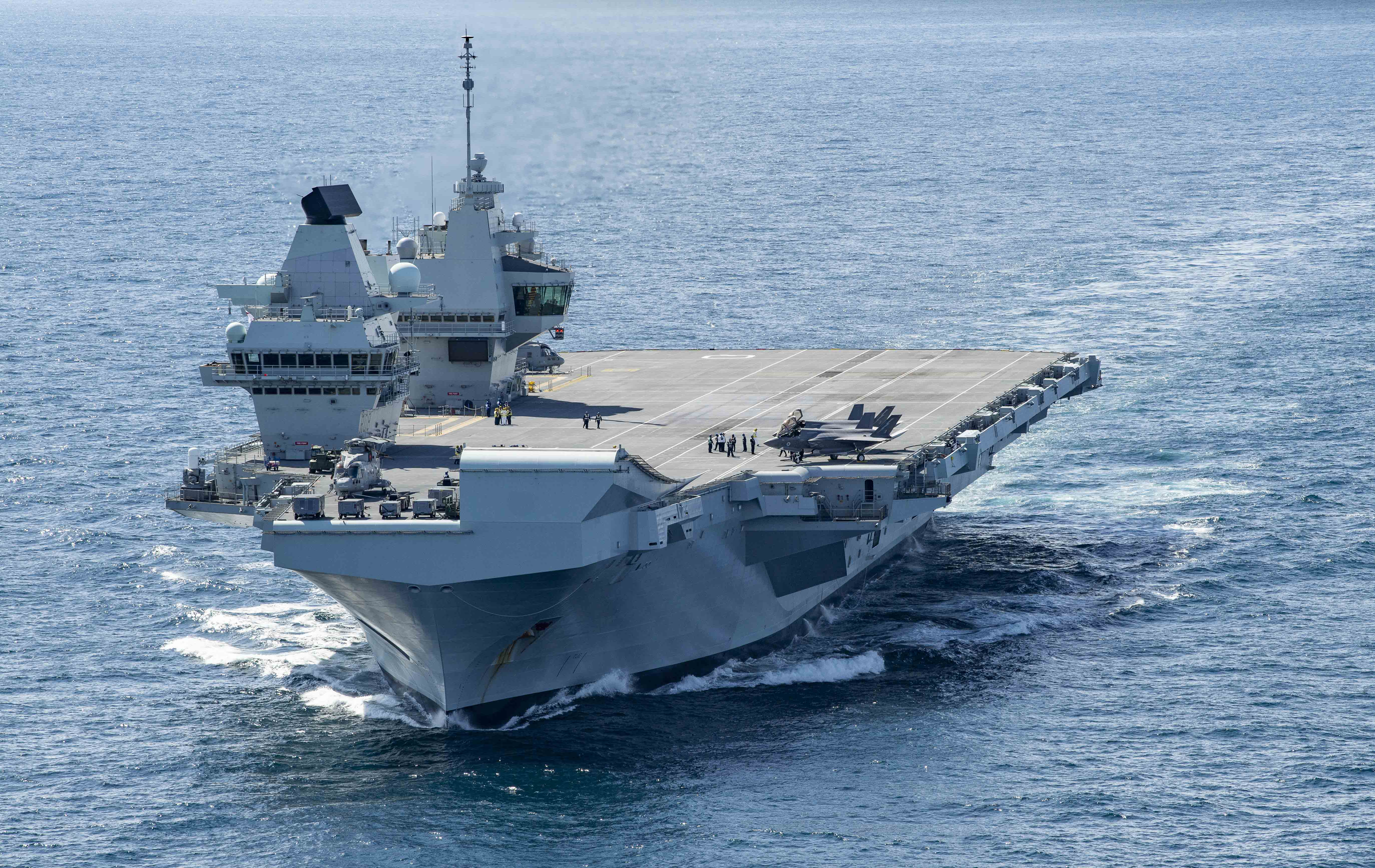 The Royal Navy aircraft carrier HMS Queen Elizabeth (R08) underway in the Atlantic Ocean on 17 October 2019. HMS Queen Elizbeth was deployed in support of exercise "WESTLANT 19", which involved mission planning, arming the aircraft using the ship's Highly Automated Weapon Handling System, flying missions and debriefing on completion. The first operational deployment for HMS Queen Elizabeth with No. 617 Squadron and a squadron of U.S. Marine Corps Lockheed Martin F-35B Lightnings is planned for 2021.